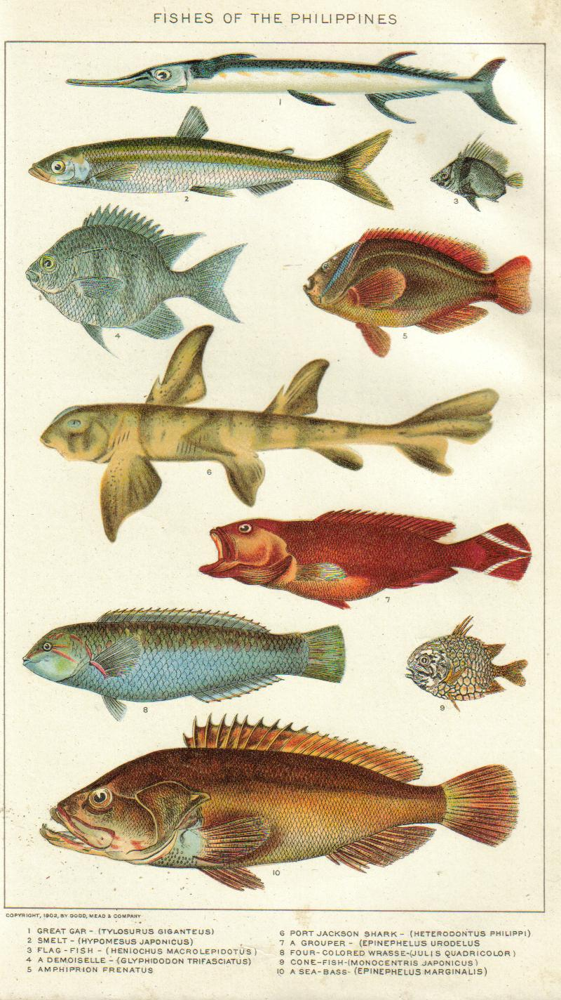 Painting Tylosurus giganteus (Tylosurus crocodilus crocodilus) Hypomesus japonicus Heniochus macrolepidotus OK Glyphidodon trifasciatus (Amblyglyphidodon curacao) Amphiprion frenatus OK Heterodontus philippi ( Heterodontus portusjacksoni ) OK Epinephelus urodelus (Cephalopholis urodeta) Julis quadricolor (Thalassoma purpureum) Monocentris japonica OK Epinephelus marginatus OK